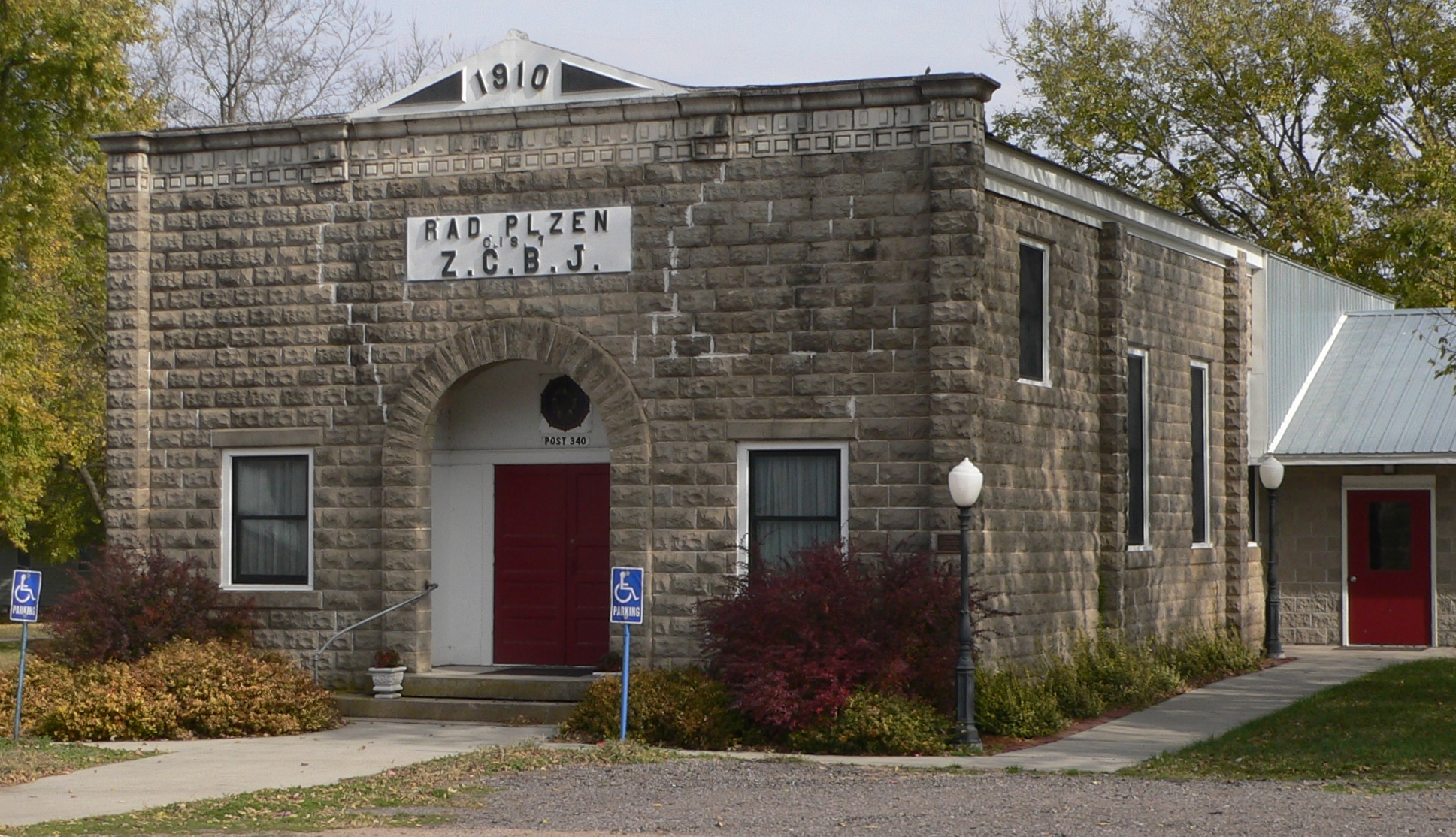 Z.C.B.J. hall in Morse Bluff, Nebraska; seen from the southwest.